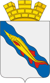 Eisk (Krasnodar krai), coat of arms